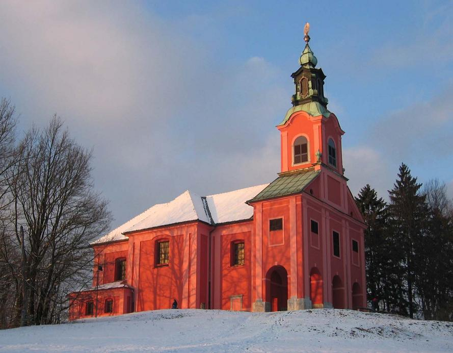 Maria's visitation church at Rožnik hill, Ljubljana. Originally built in 1740-47 and extensively renovated in 1823. photo:Ziga 08:43, 1 May 2006 (UTC)